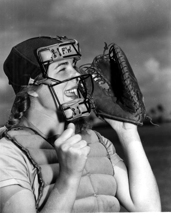 Local call number: c009837 Title: Dottie Schroeder, catcher, shouting play ball behind mask. Date: Photographed on April 22, 1948. Physical descrip: 1 photoprint : b&w ; 5 x 4 in. Series Title: (Department of Commerce collection) Biographical note: Dorothy "Dottie" Schroeder was born on April 11, 1928 and became the All-American Girls Professional Baseball League's youngest player at age fifteen. Miss Schroeder was the only girl who played all 12 seasons for the AAGPBL. She passed away on December 8, 1996. Repository: State Library and Archives of Florida, 500 S. Bronough St., Tallahassee, FL 32399-0250 USA. Contact: 850-245-6700. Persistent URL